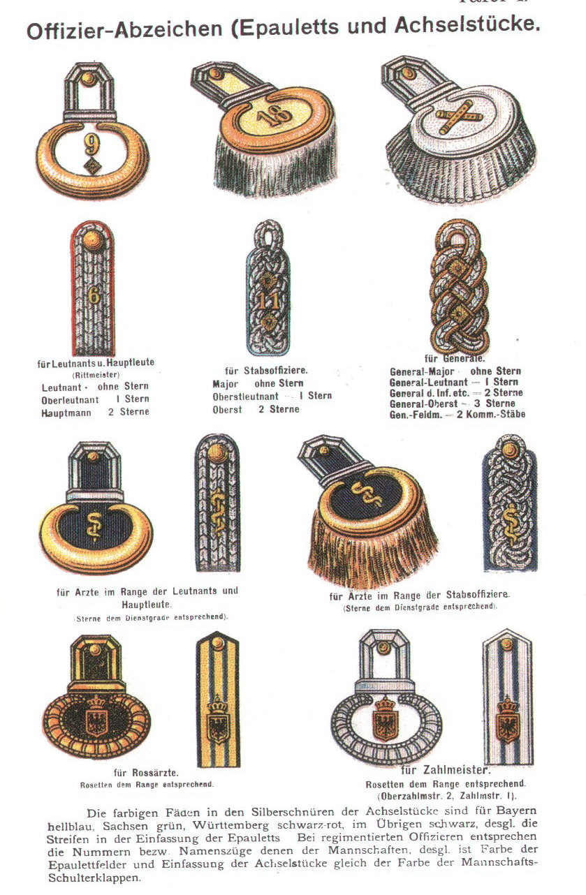 Rank insignia of the German Empire 1871 until 1918, here epaulettes and shoulder strap to officers and generals of the Imperial-German Army (left to right): 1st row = Lieutenant (without star, OF-1b); Colonel (two stars, OF-5); General of the infantry (two stars, OF-8); 2nd row = Surgeon in the rank of a lieutenant (without star, OF-1b); Surgeon in the rank of a major (without star, OF-3); 3rd row = Veterinarian with the rank of a lieutenant (without rosette, OF-1b); paymaster in the rank of lieutenant (one rosette, OF-1b).